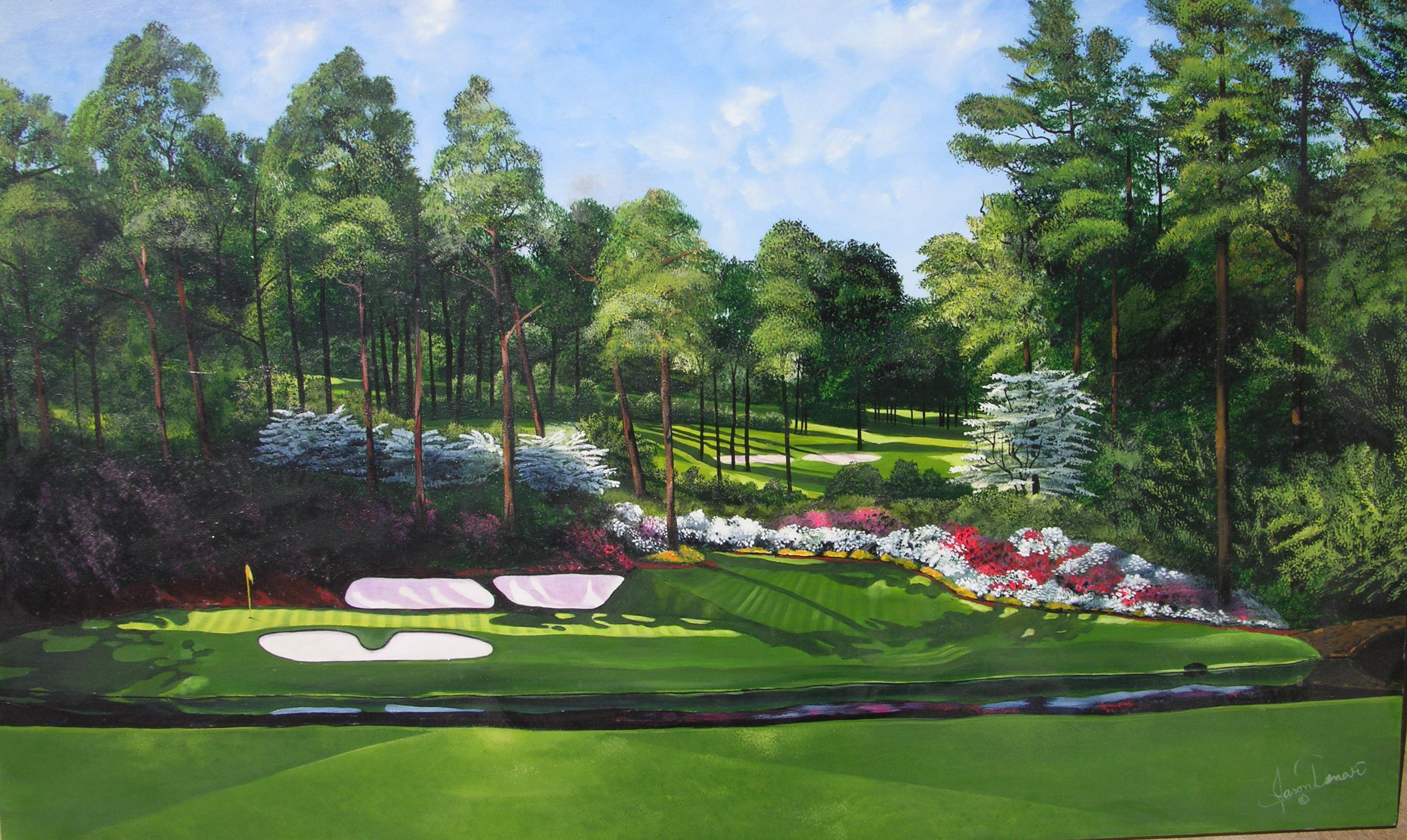 12th at Augusta National in Georgia, USA...from the tee, 24" x 36"